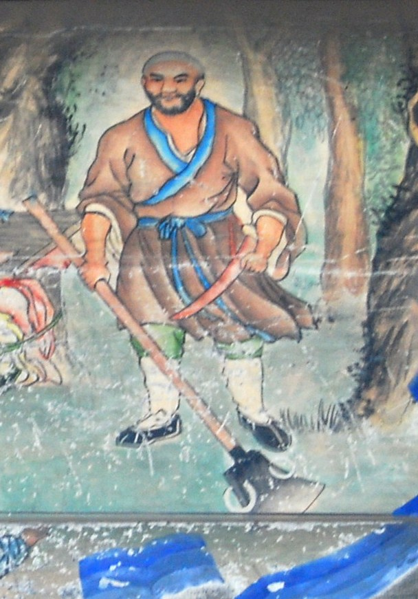 Mural (cropped) depicting Lu Zhishen from the novel Water Margin at the Long Corridor in the Summer Palace. Dating back to the 19th century.